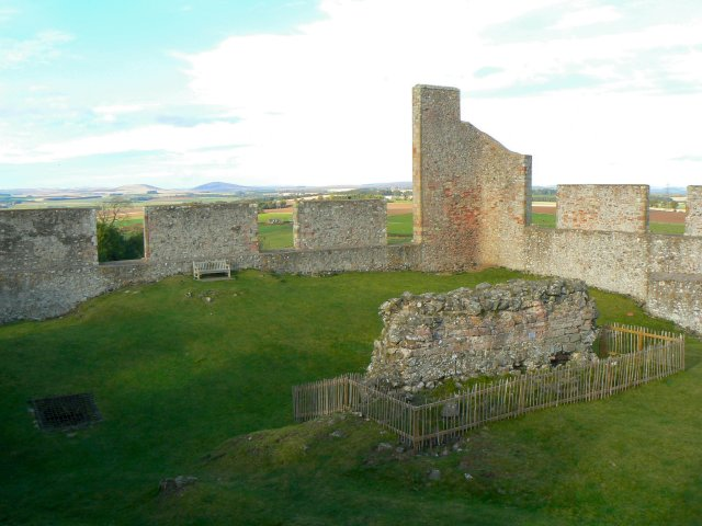 Inside Hume Castle The conspicuous 'castle' towering over the countryside around the village of Hume is little more than a folly, constructed on the ruinous foundations of a 12th century castle by the Earl of Marchmont in about 1794. These walls were further restored in the 1980s and about the only relic of the original castle is the ruined foundation of the tower which can be seen behind a fence in this photograph.